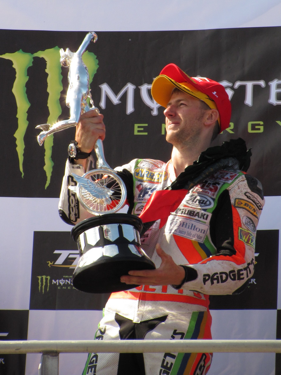 Ian Hutchinson